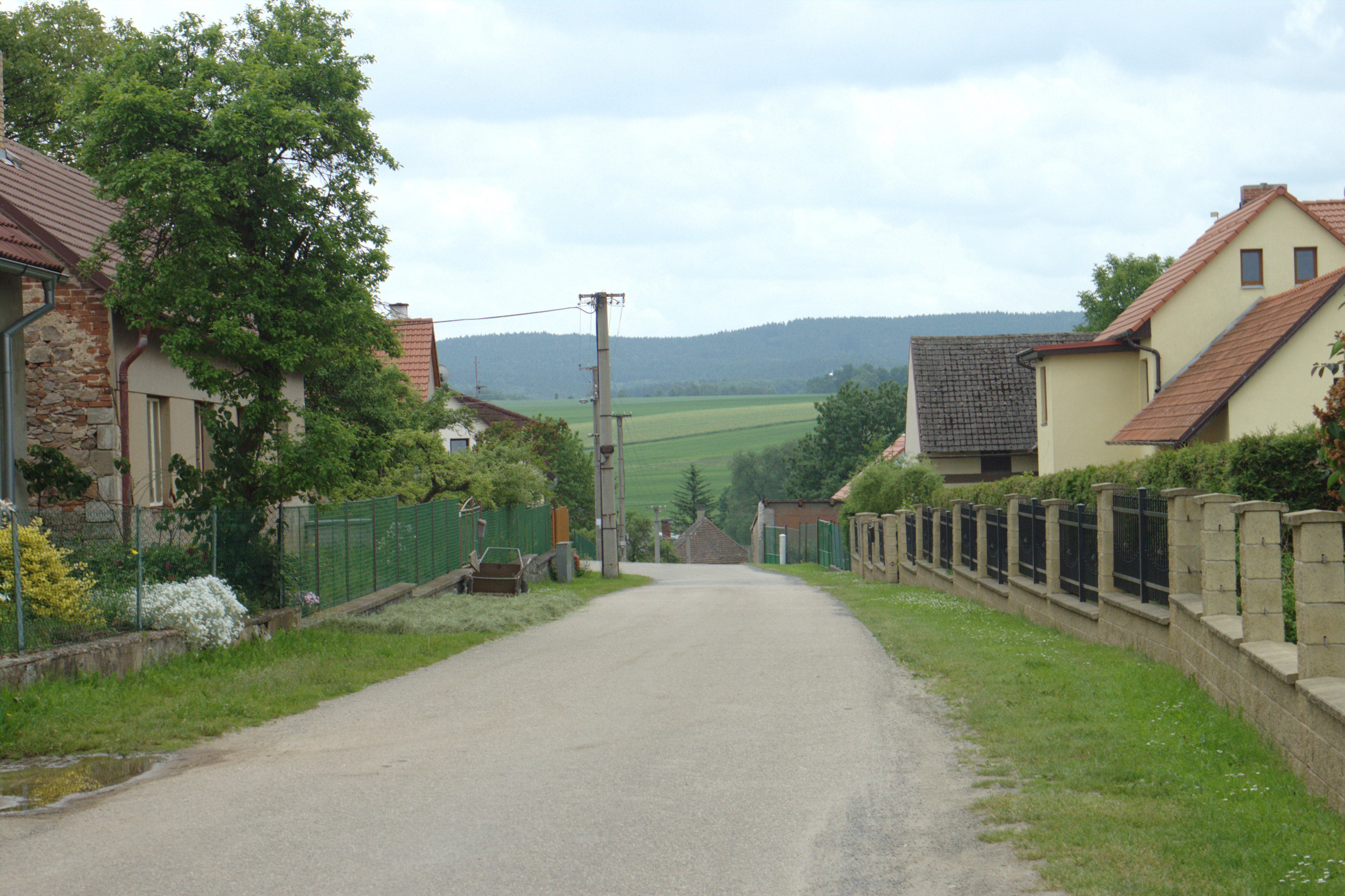 Town of Mokrá Lhota south from Benešov, Central Bohemian Region, CZ